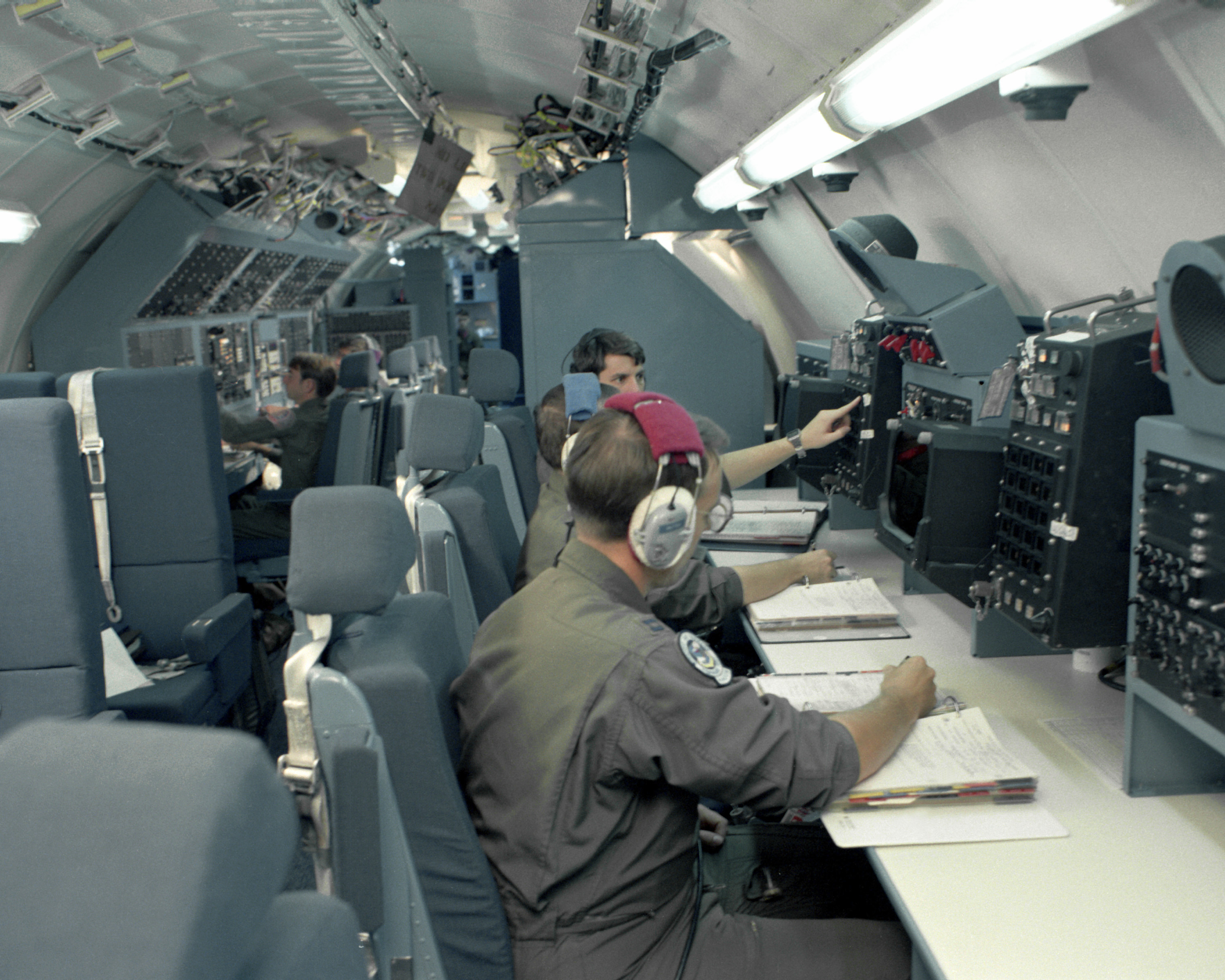 Inside Boeing EC-135 Airborne Launch Control Center (ALCC)